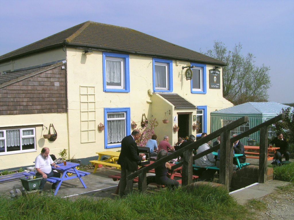 Berney Arms public house, Norfolk, 2007